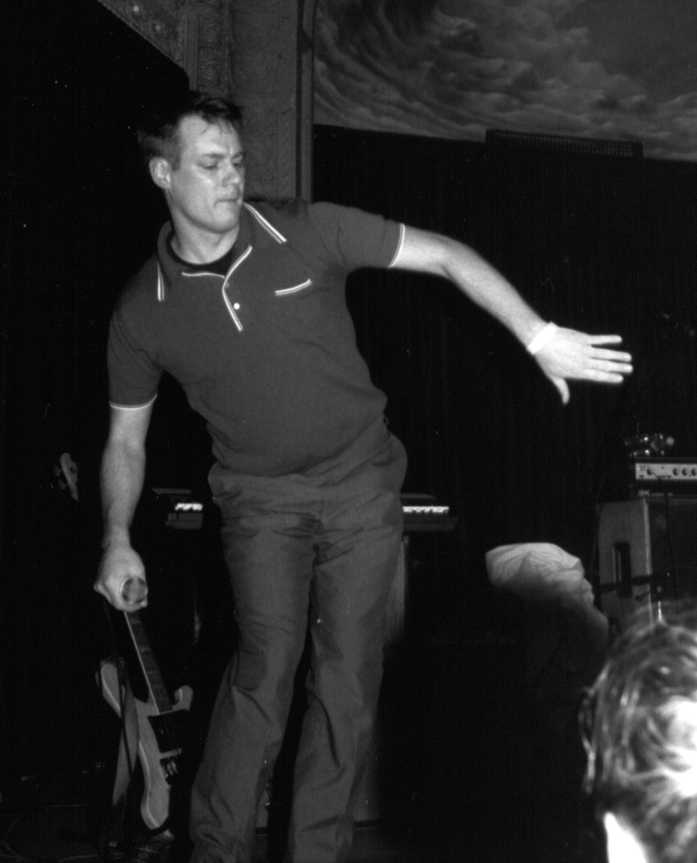 Dub Narcotic Sound System Crystal Ballroom Portland, OR